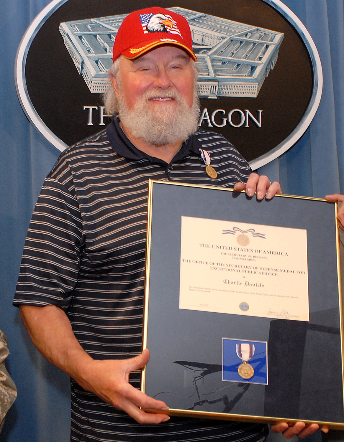 Charlie Daniels, Country/Southern Rock Musician, is presented the Office of the Secretary of Defense Medal for exceptional public service during a visit to the Pentagon